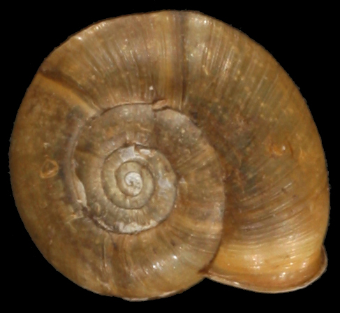 Photo of apical view of the shell of Elona quimperiana. Locality: France: Bretagne, N Lorient. Date: 1986.